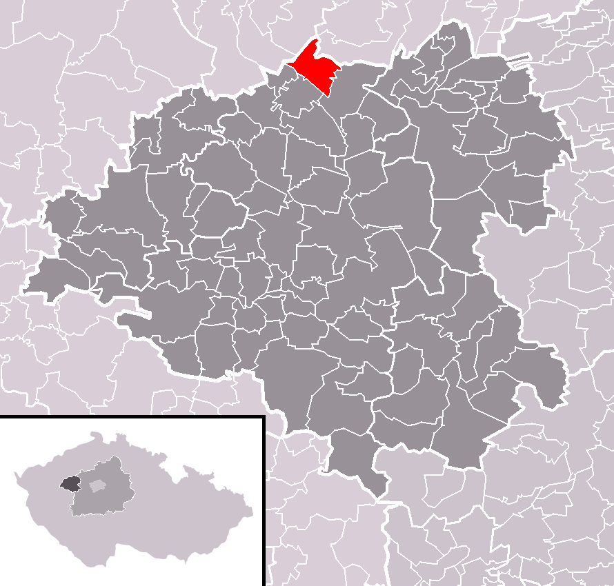 Location of Kounov municipality within Rakovník District and (identical) administrative area of Rakovník as a Municipality with Extended Competence.